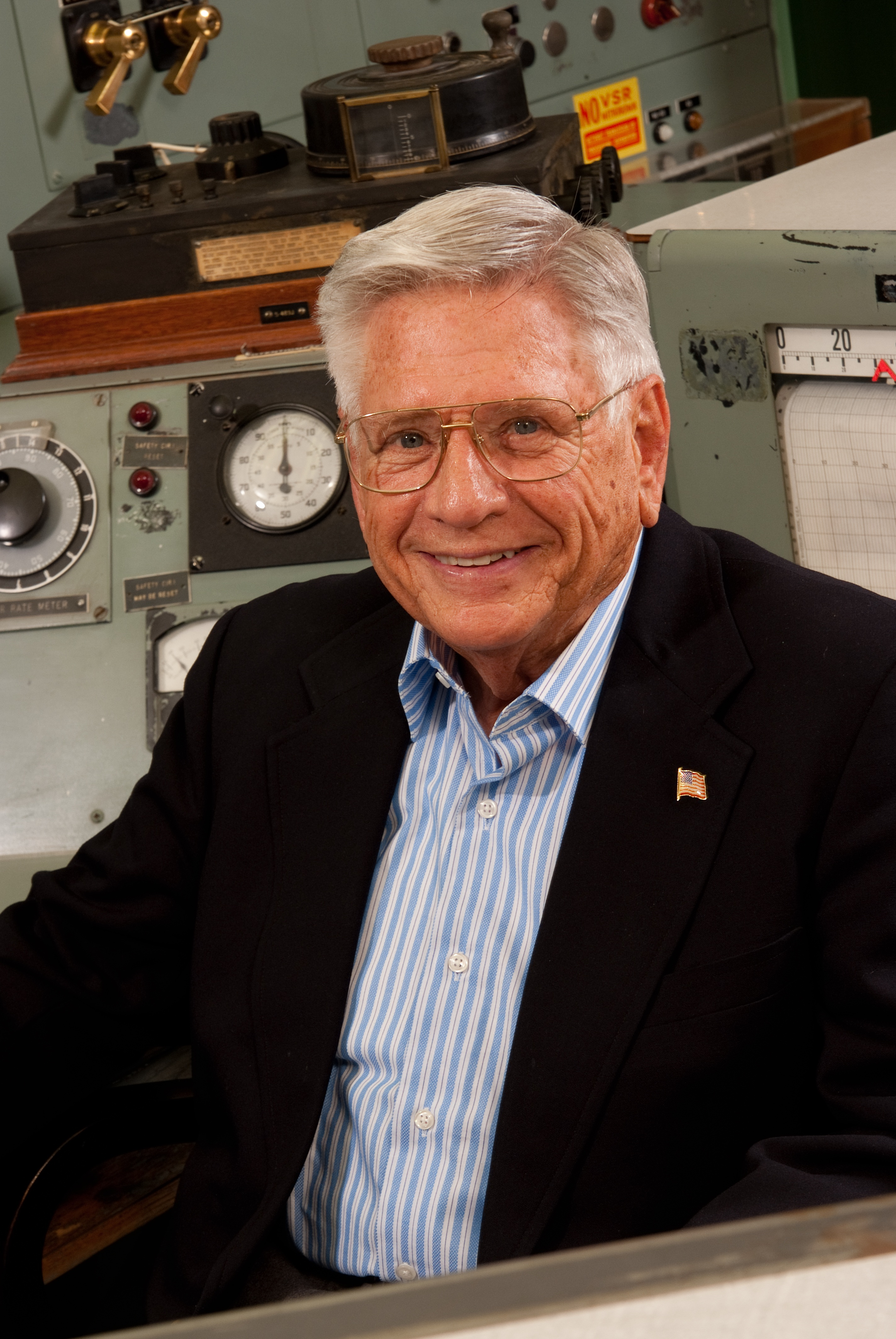 Robert L. Ferguson in the control room of the B Reactor, the world's first full-scale nuclear reactor, on the Hanford Site in Richland, Washington, 2012.